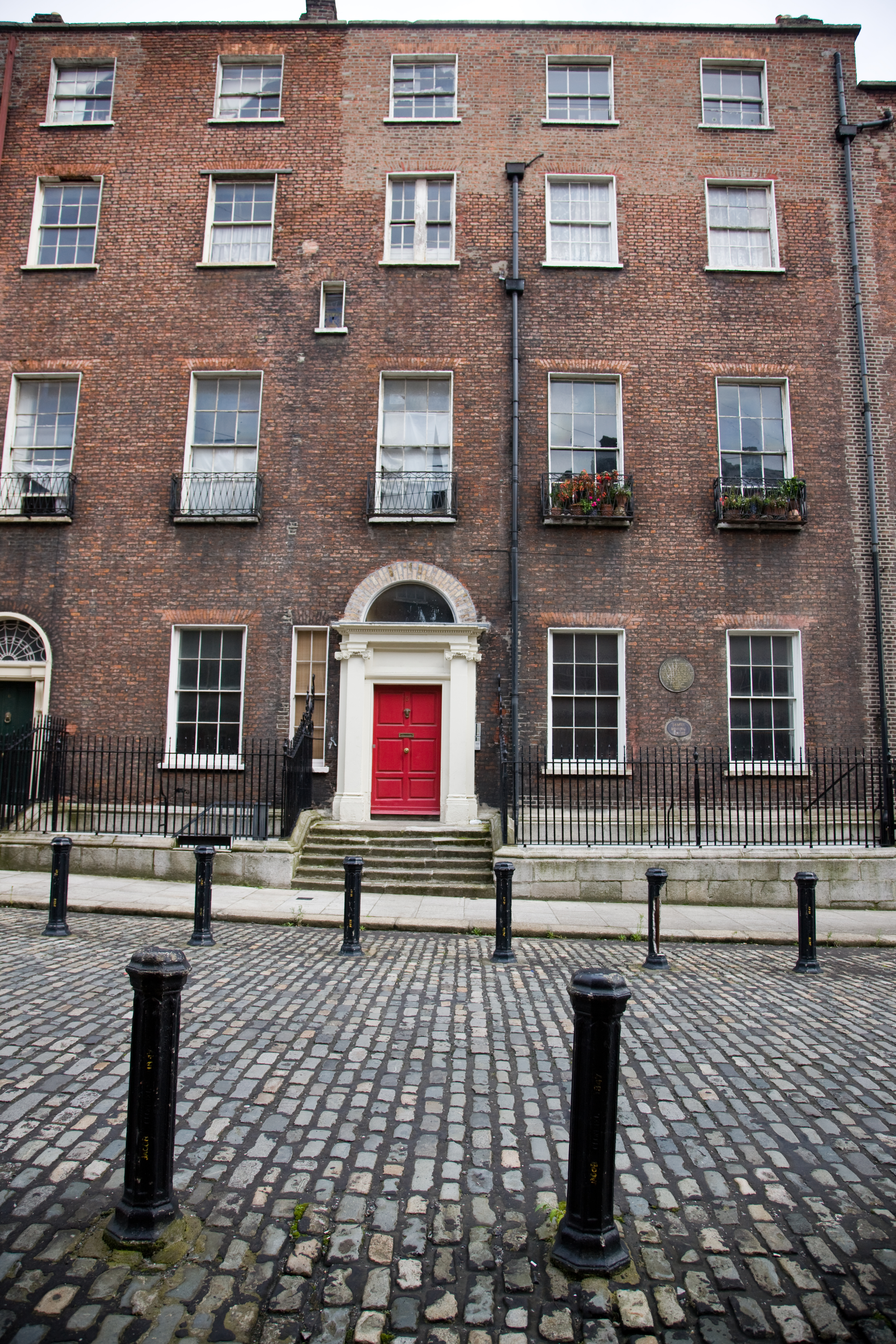 No. 5 Henrietta Street Dublin 1 No. 6 & 5 (north-side), originally a single house (divided c.1826). Built by Nathaniel Clements in 1739 for Henry O’Brien, 8th Earl of Thomond. Henrietta Street - Dublin